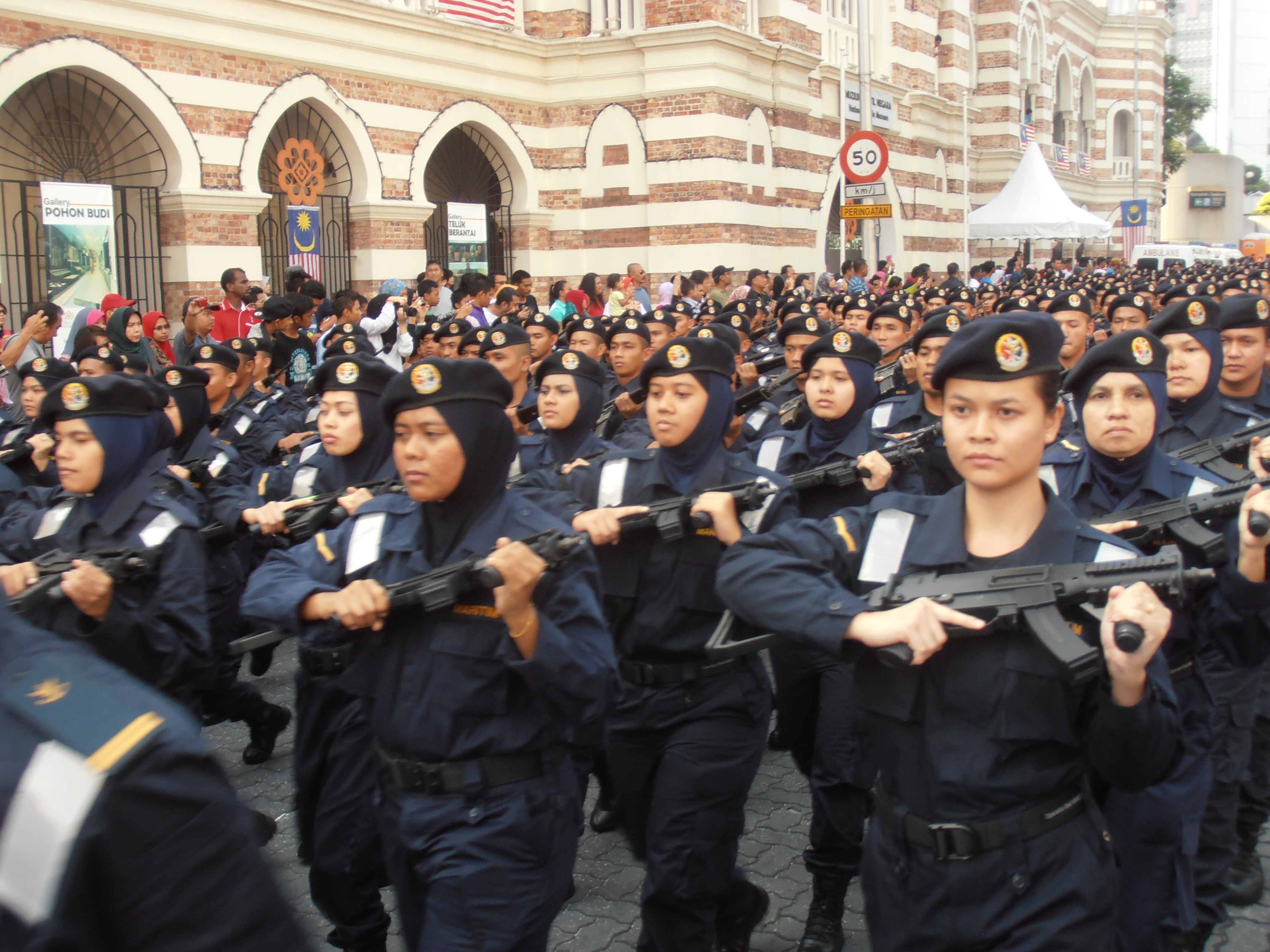 A female personals of Malaysian Maritime Enforcement Agency on parade with HK UMP 9 submachineguns during the 56th National Day Parade of Malaysia at Merdeka Square, Kuala Lumpur.